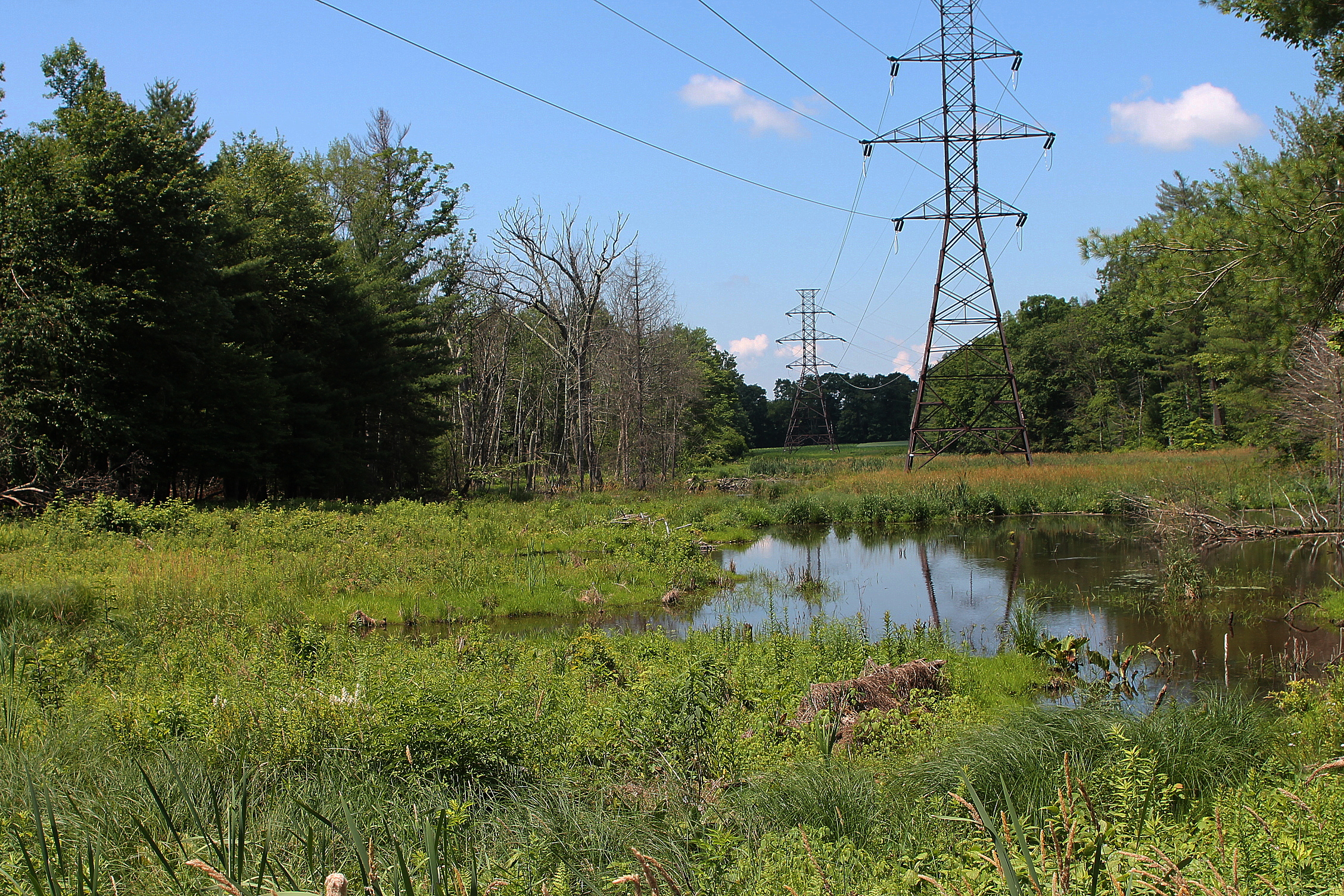 Swampland 0.4 miles from the headwaters of Stony Brook. This is north of Pennsylvania Route 93.